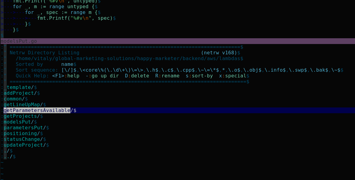 The same view for archives and remote resources. Vim 8.2